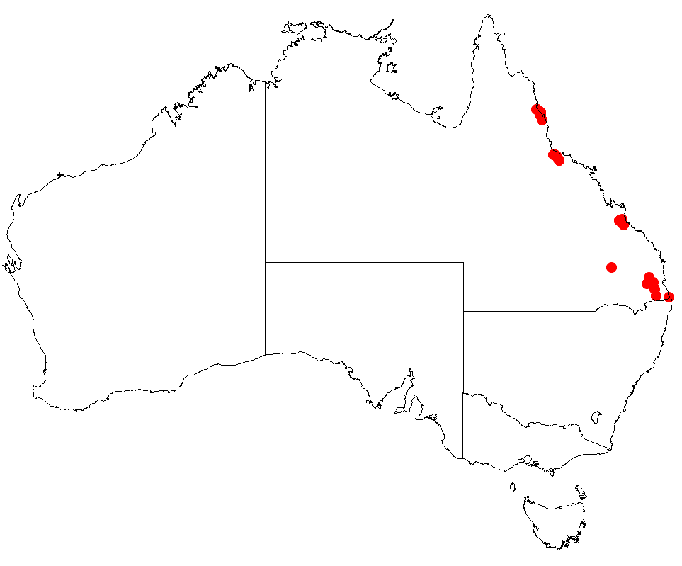 Parsonsia lenticellata Occurrence data for Australia from Australasian Virtual Herbarium downloaded 22 December 2018